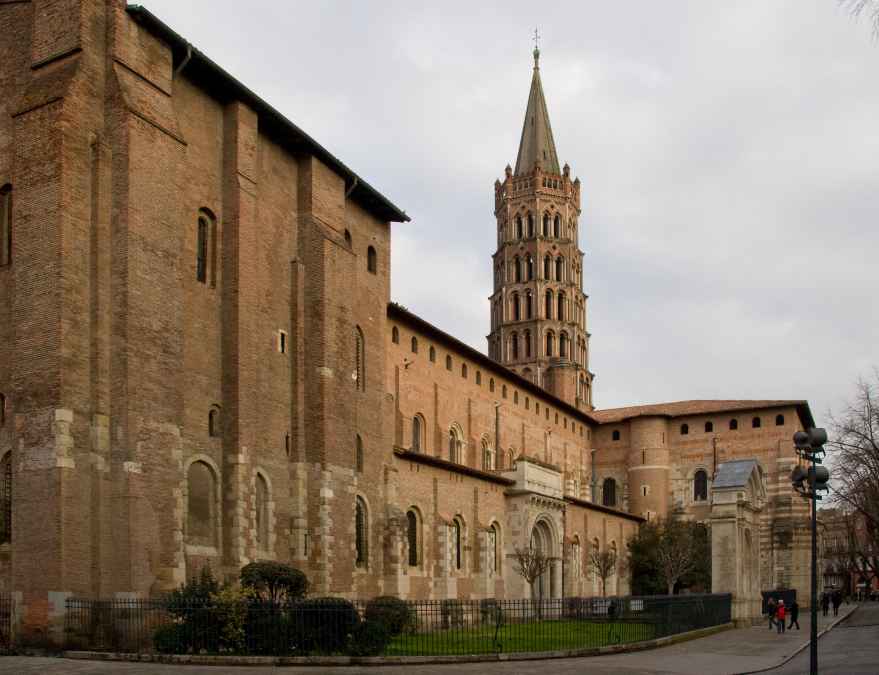 Toulouse- Saint-Sernin